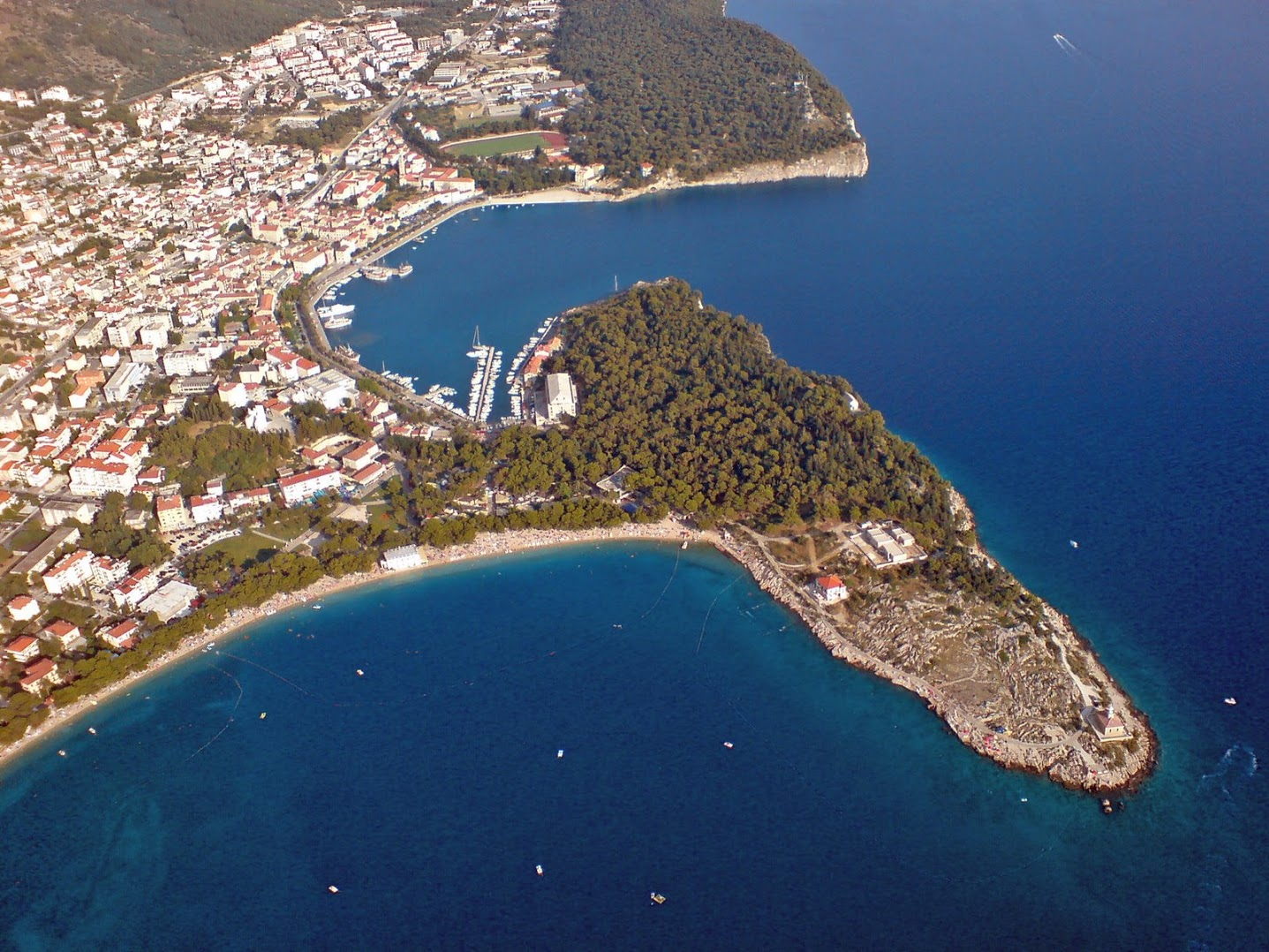 Makarska from air